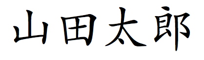 Yamada Tarō – Japanese name in kanji